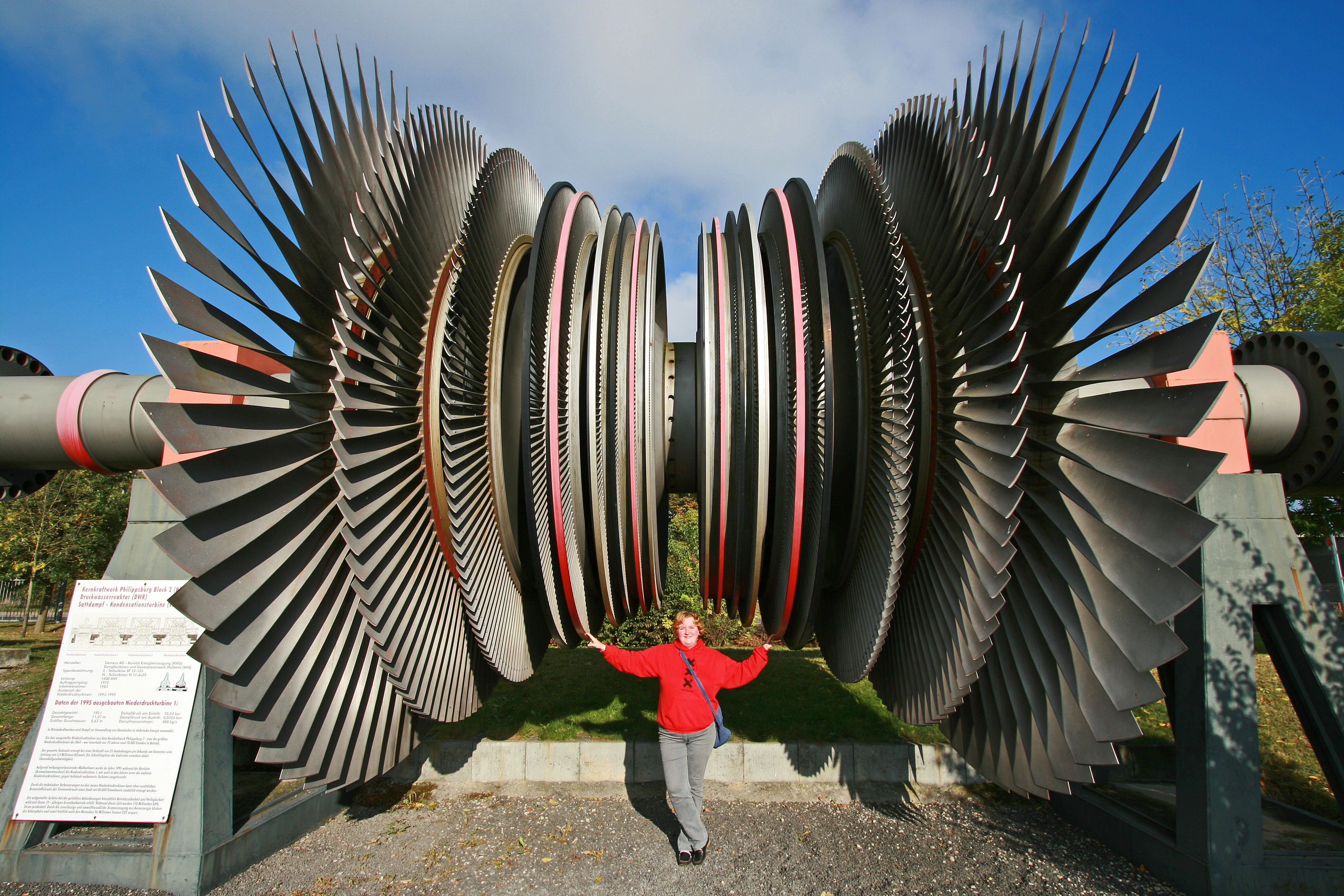 This is a low pressure steam turbine from the nuclear power plant Philippsburg/Germany. It has a weight of 190 t, is 11.47 m long and has a maximum diameter of 5.62 m. Input is 480 kg per second of steam with an entry pressure of 10.54 bar, output pressure of 0.0456 bar. The shaft rotated at 25 turns per second and the entire plant had a power of 1400 MW.